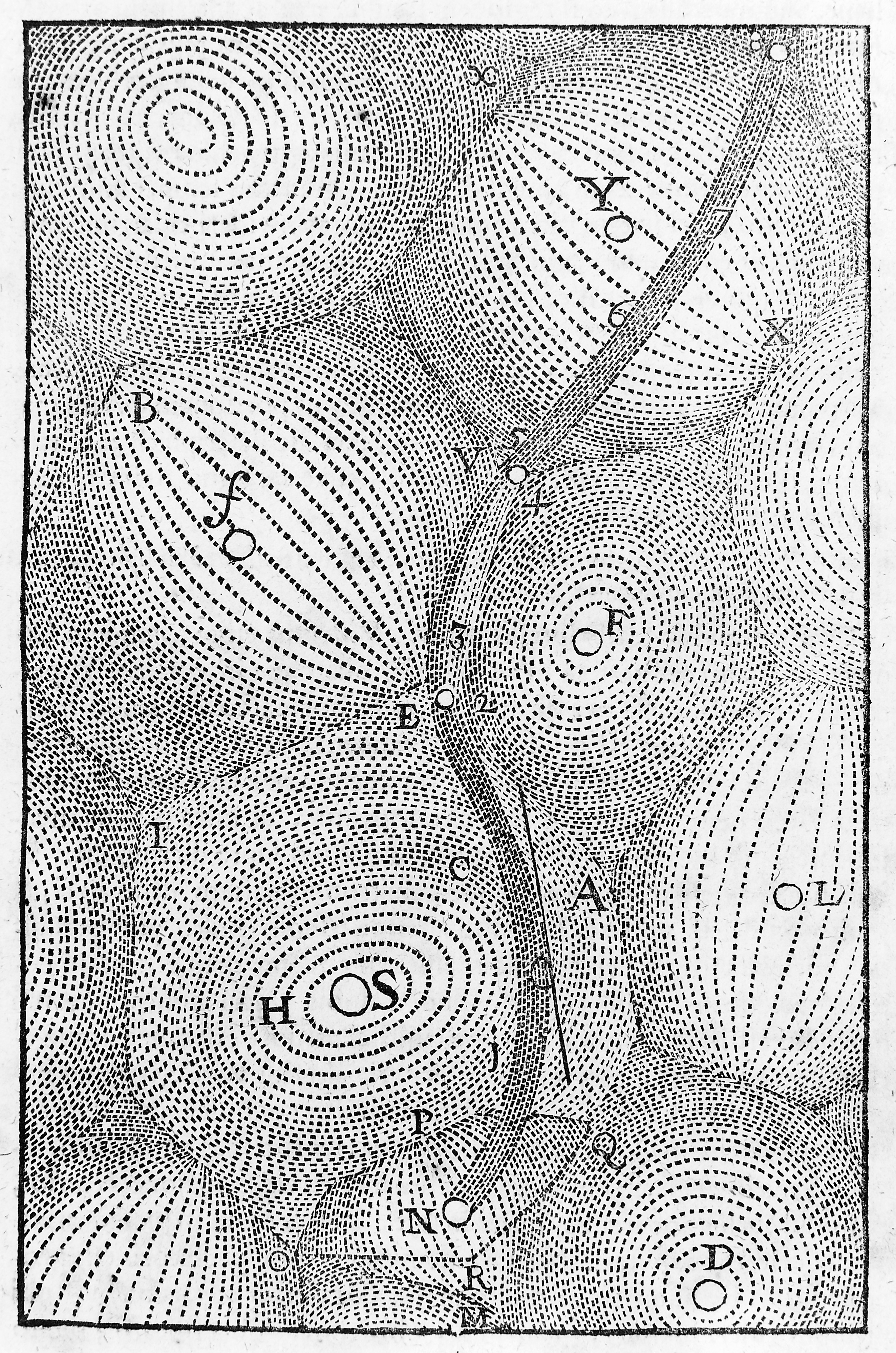 Descartes system of vortices. Universe as conceived by Descartes. General Collections